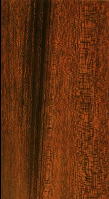 crabwood andiroba timber aspect